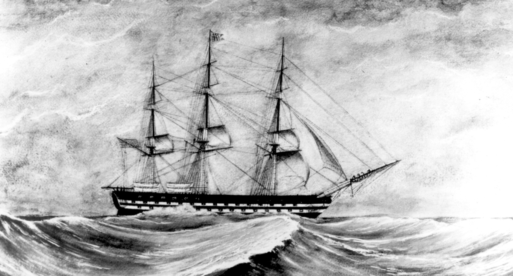 USS Independence, first American ship of the line. In 1836 she was cut down by one deck and became a frigate.